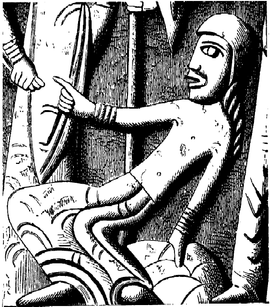 Female figure on the baptismal font in Tryde Church